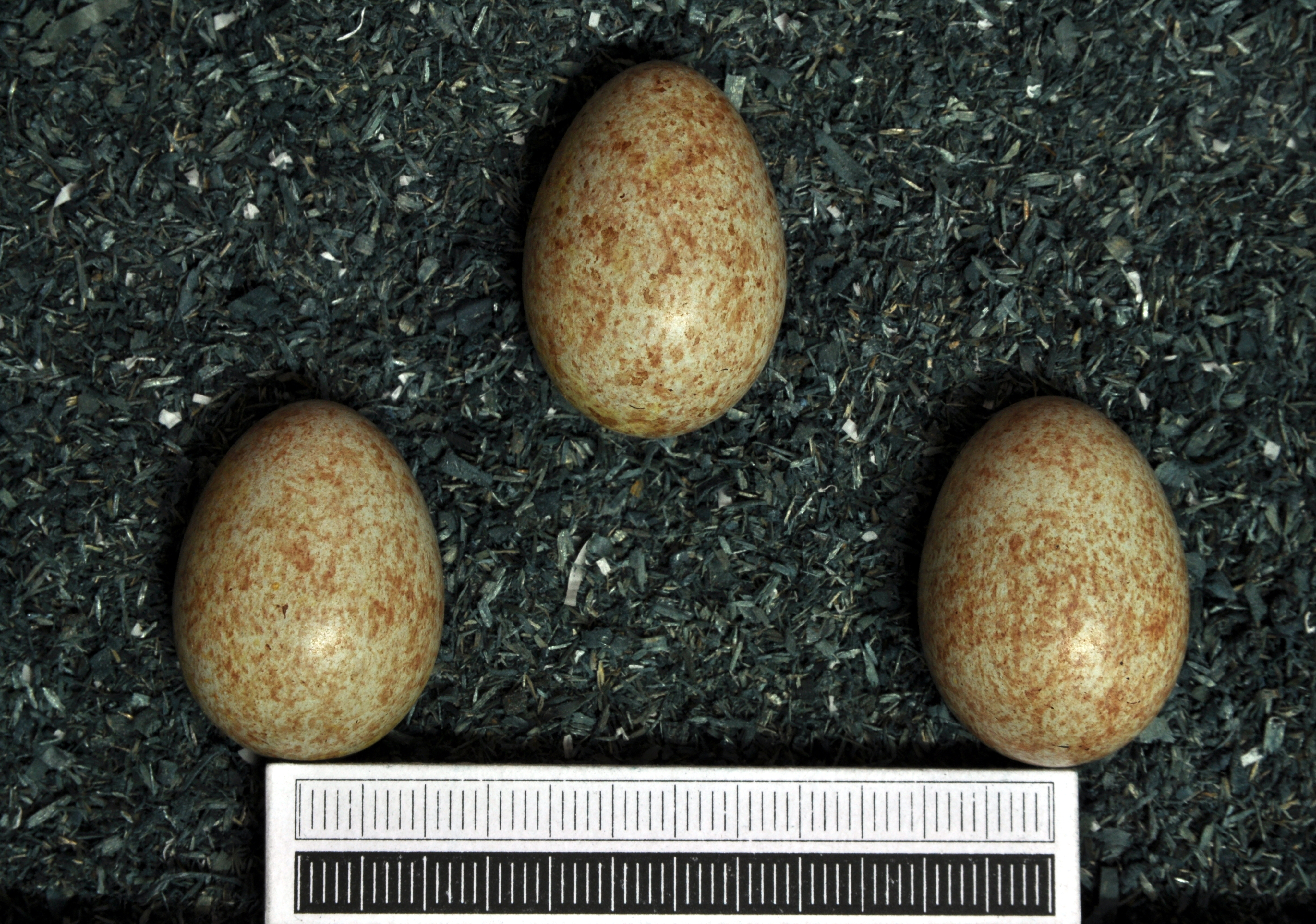 Ring ouzel Turdus torquatus, egg, Coll. Museum Wiesbaden, Origin: Großer Arber, Bavaria, 12.06.1973, leg. W. Abelmann